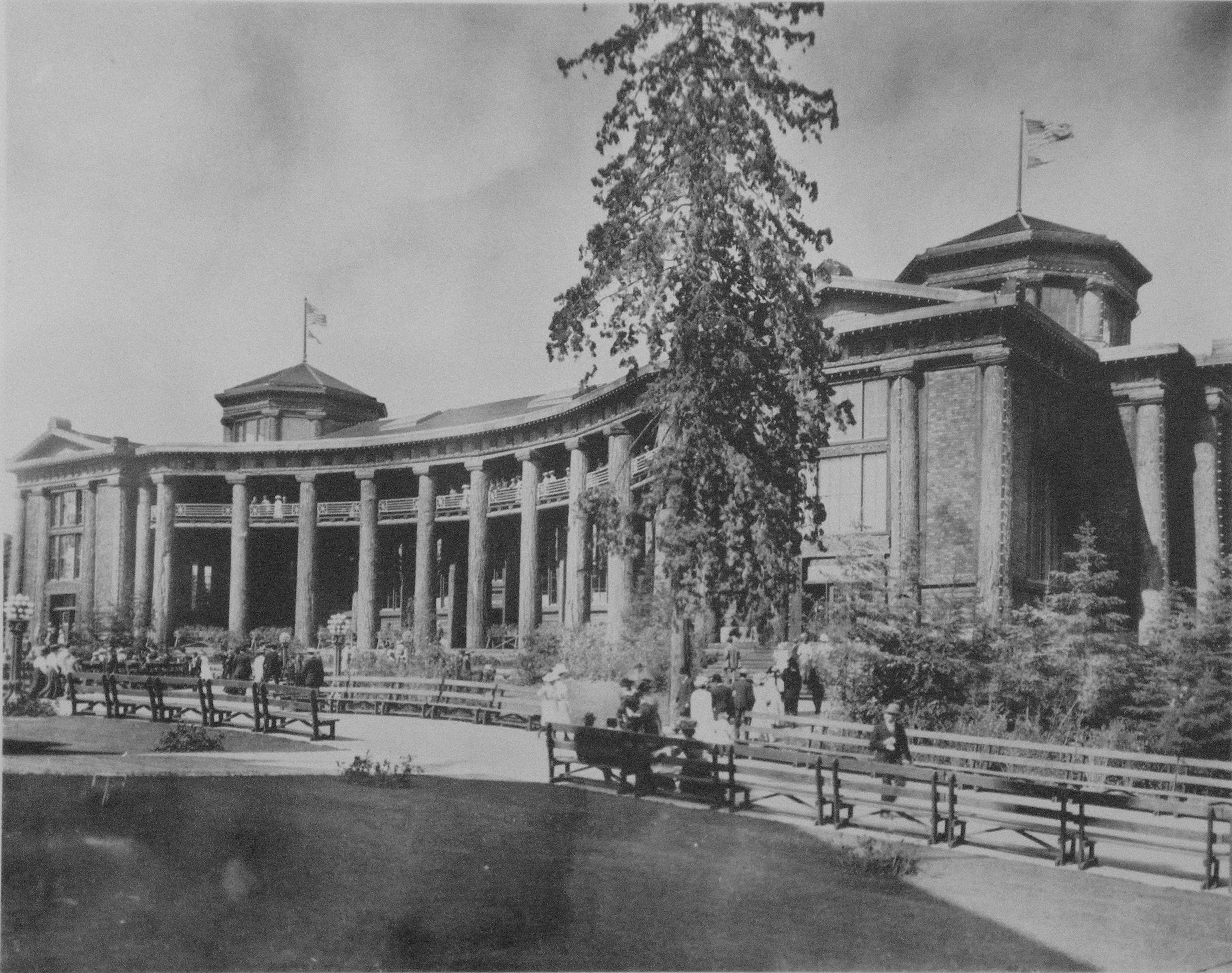 "The Forestry Building of the A. Y. P. Exposition". That's the Alaska-Yukon-Pacific Exposition on the campus of the University of Washington in Seattle, Washington in 1909.